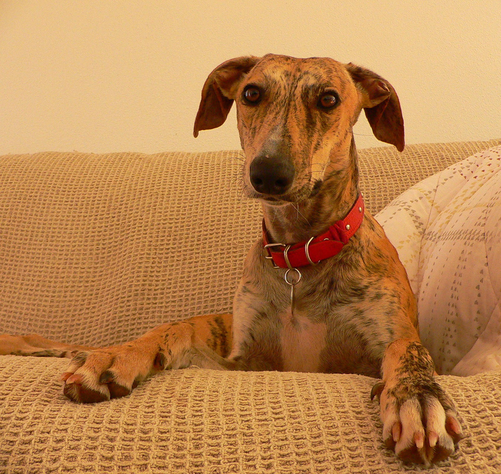 Spanish Greyhound - Galgo Espanol